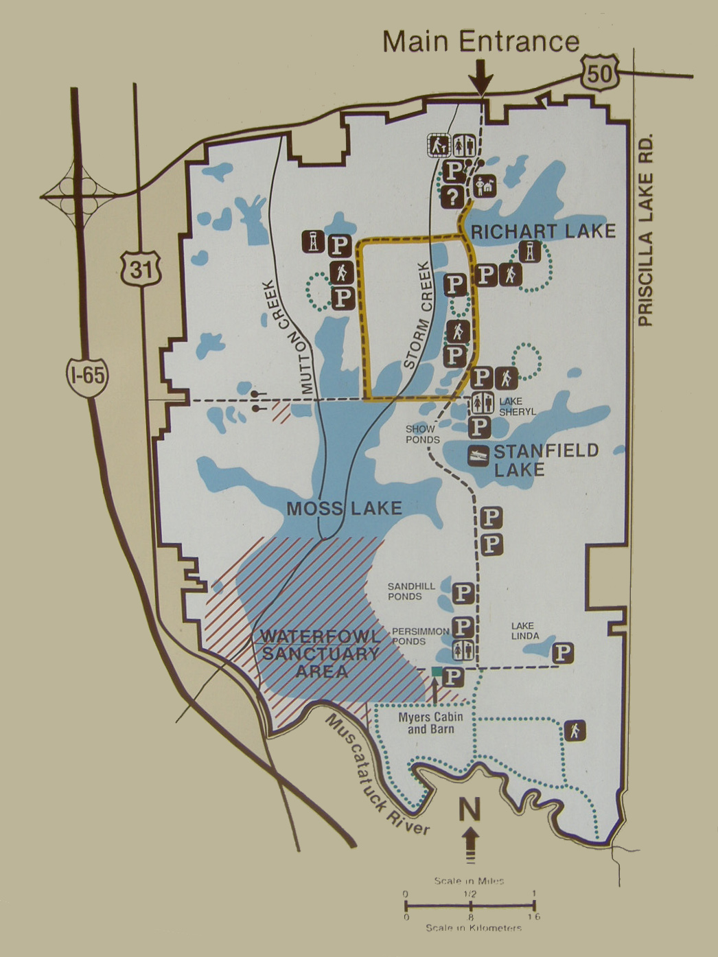 Map of Muscatatuck National Wildlife Refuge, found outside the visitor center.